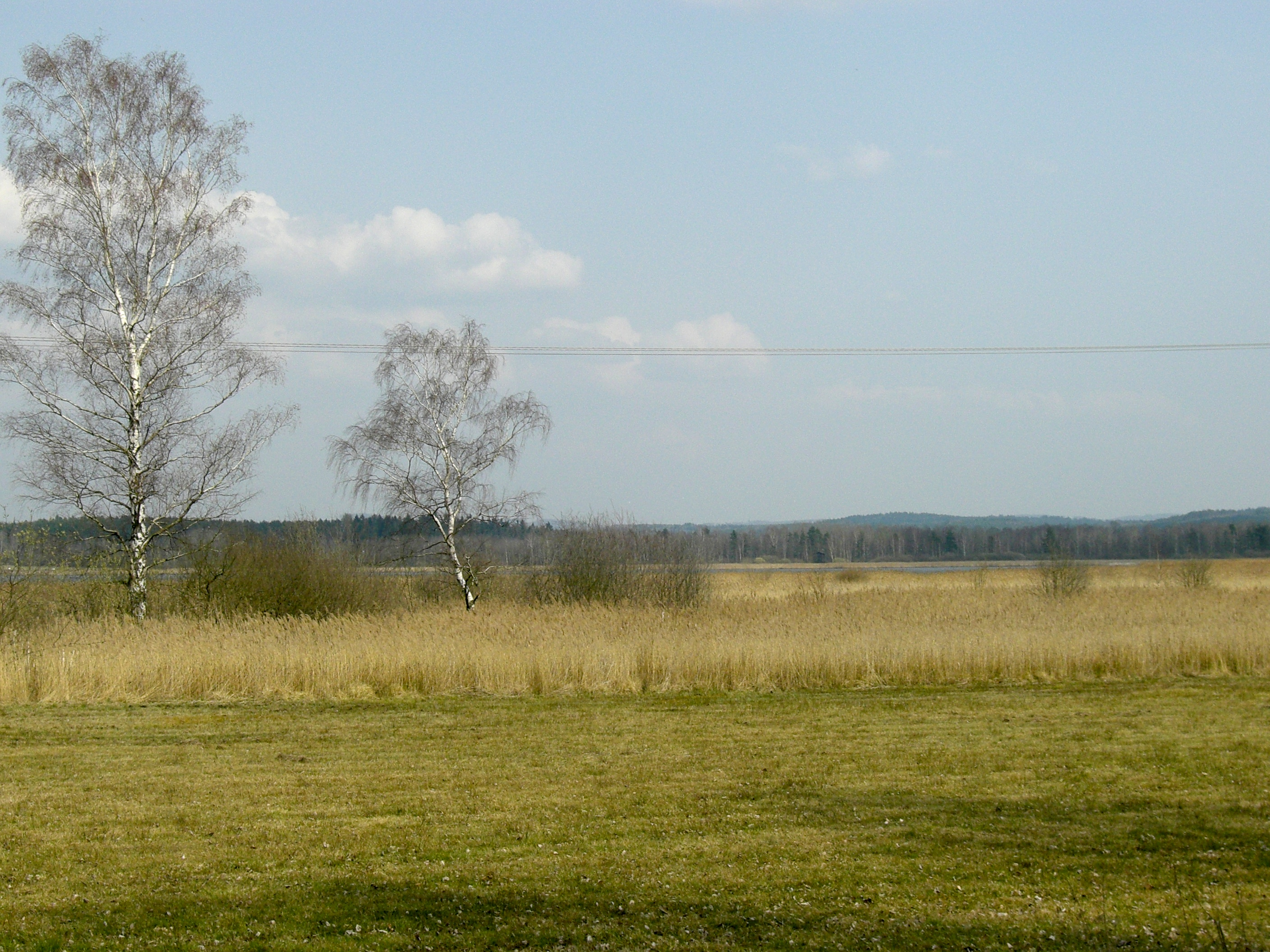 Řežabinec a Řežabinecké tůně in Písek district, Czech Republic. Panorama by Zoner Panorama Maker.